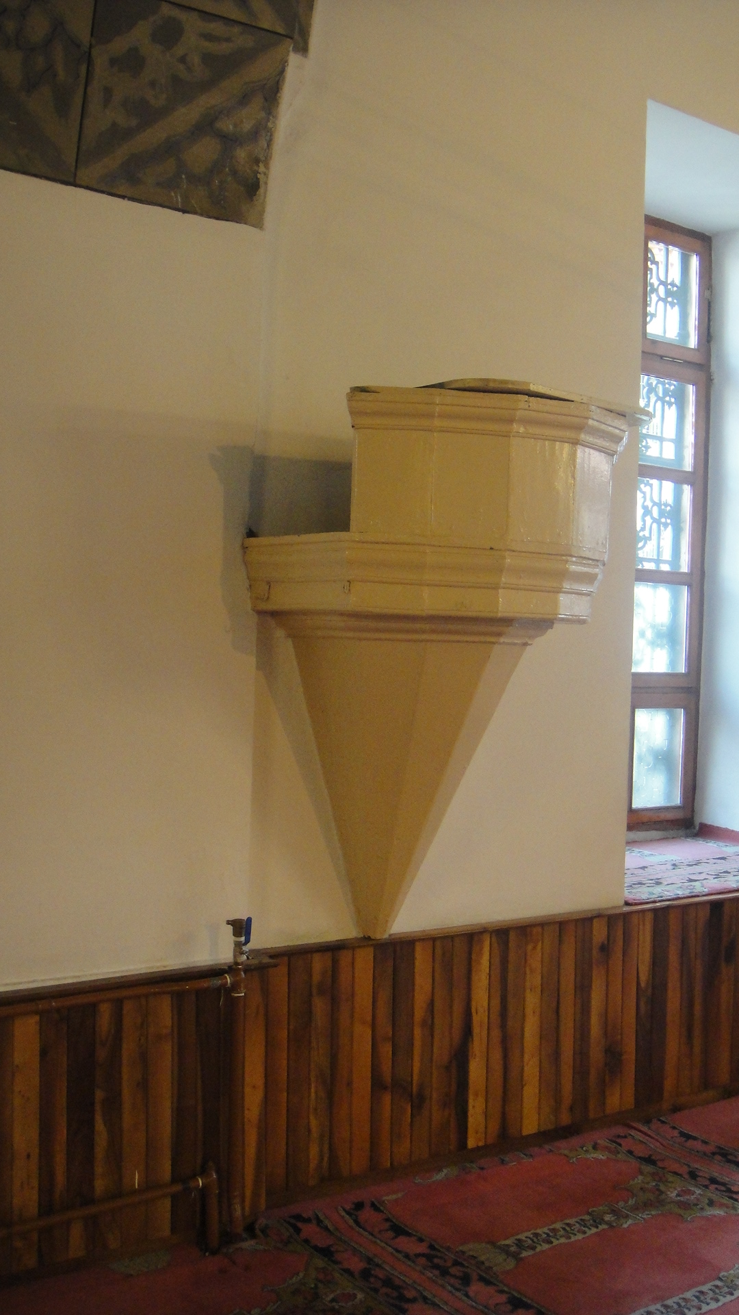 Mehmet Akif Ersoy talked about Islam in this place. Kastamonu-Turkey.